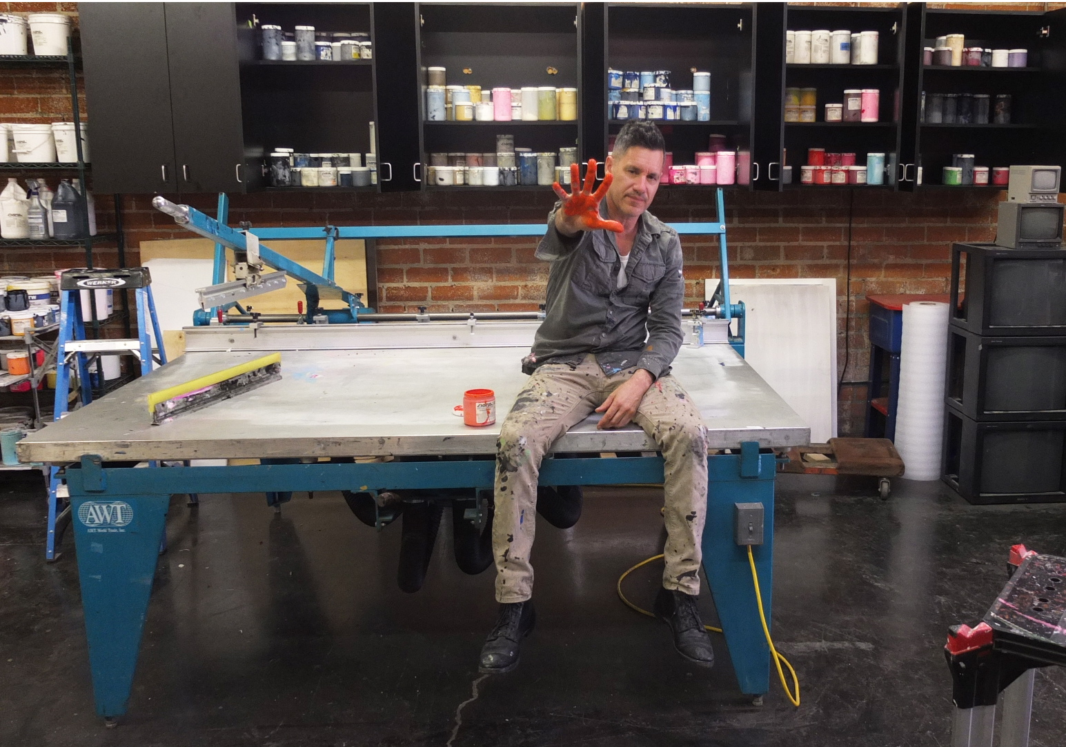 This is a photo of James Georgopoulos to be used on James Georgopoulos